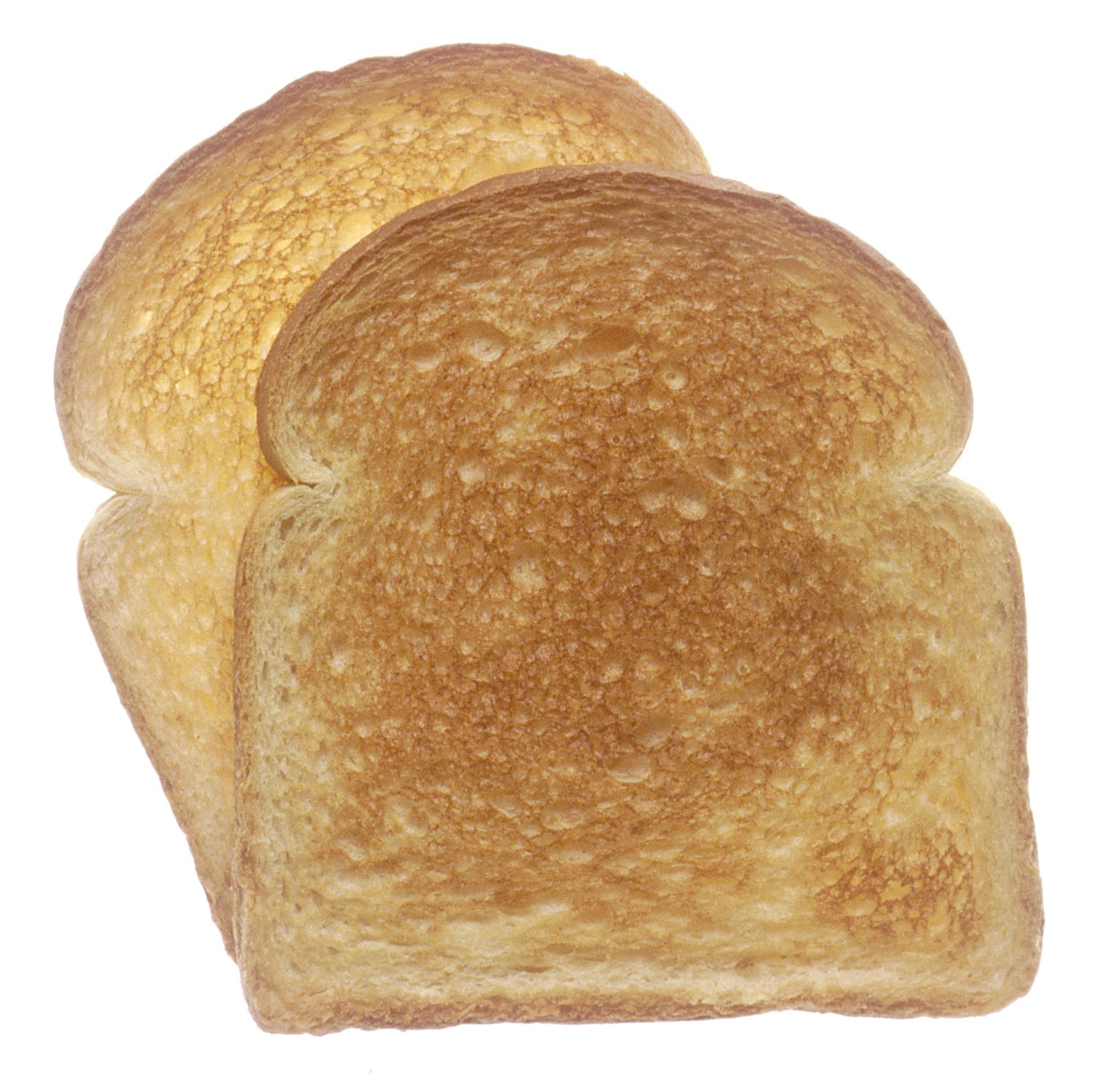 two slices of toasted white bread